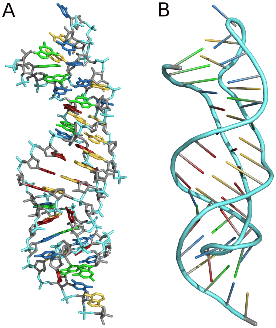 structure of a pseudoknot of pdb-file 1YMO. (A) sticks (B) backbone